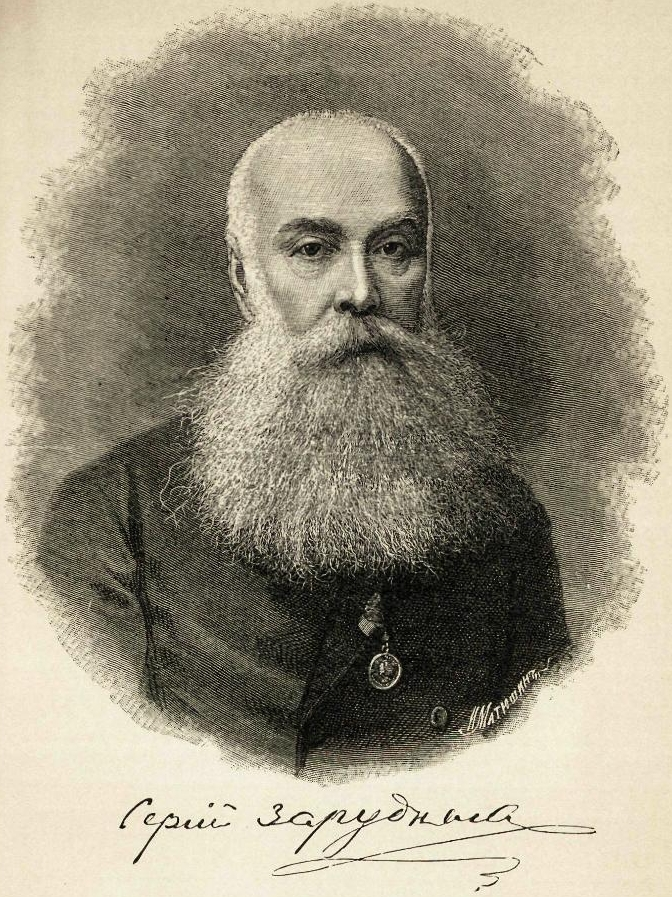 Zarudnyi Sergey Ivanovich